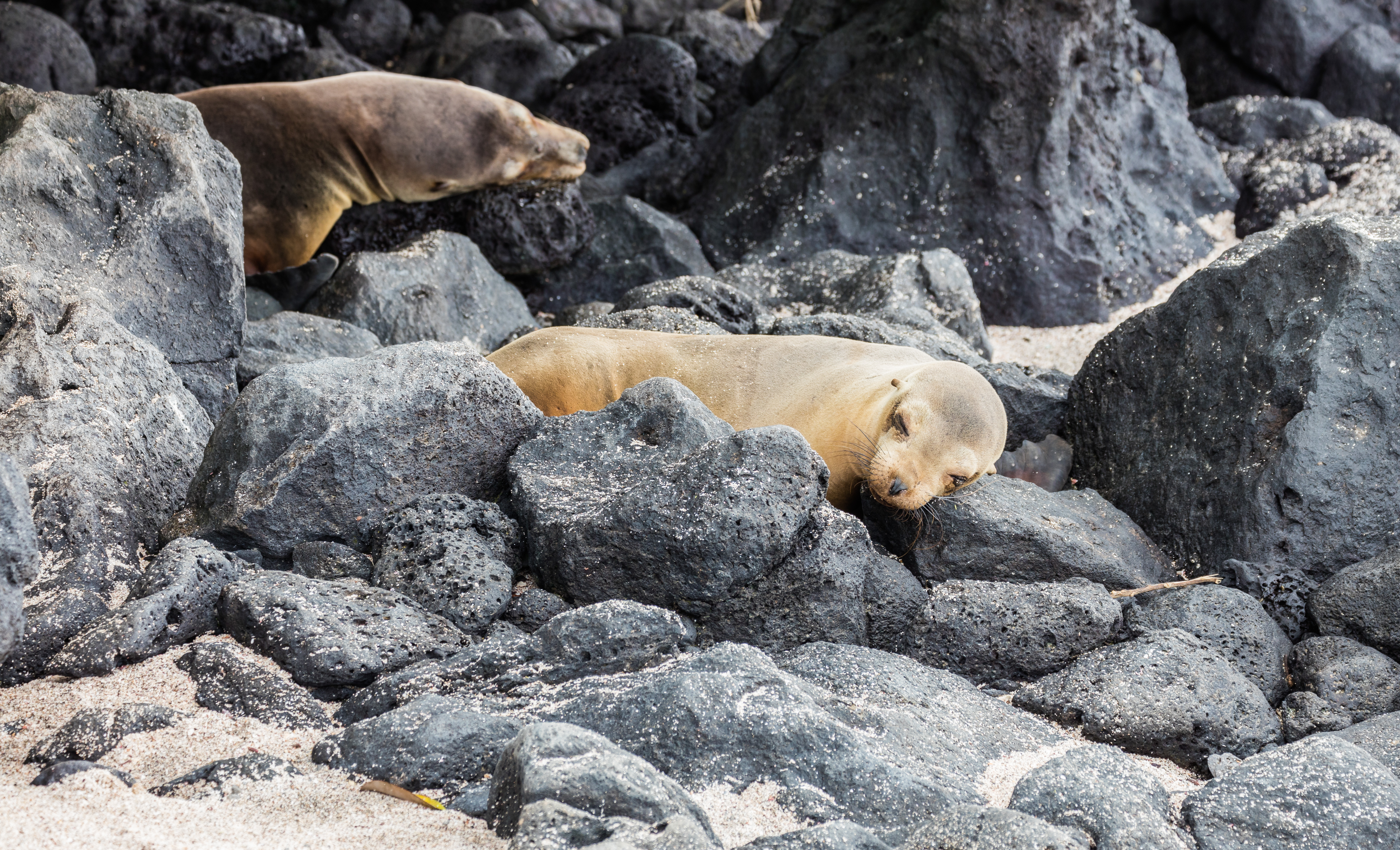 Sea lion (Zalophus californianus wollebaeki), San Cristobal island, Galapagos islands, Ecuador